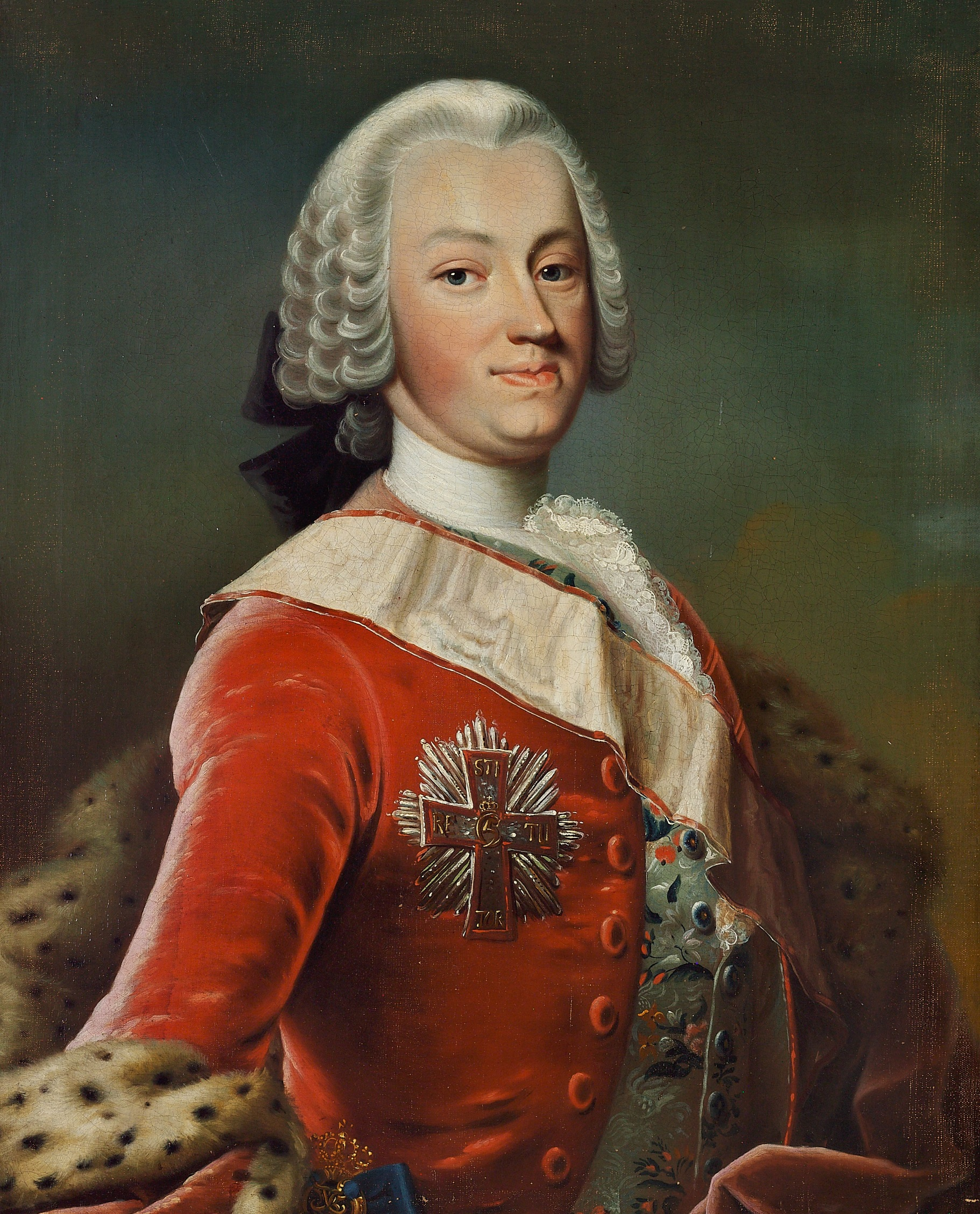 Danish nobleman and district officer.